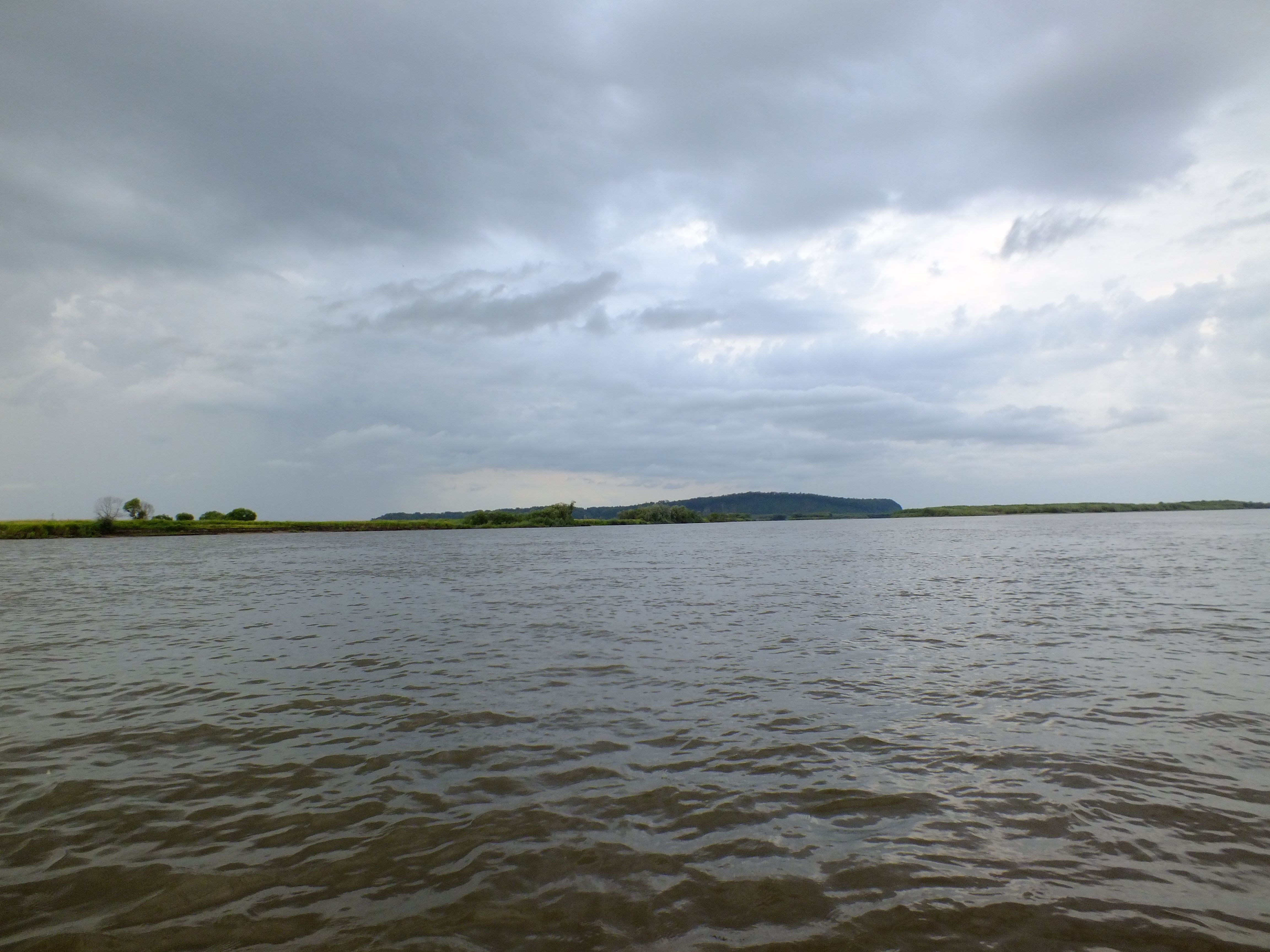 Amursky District